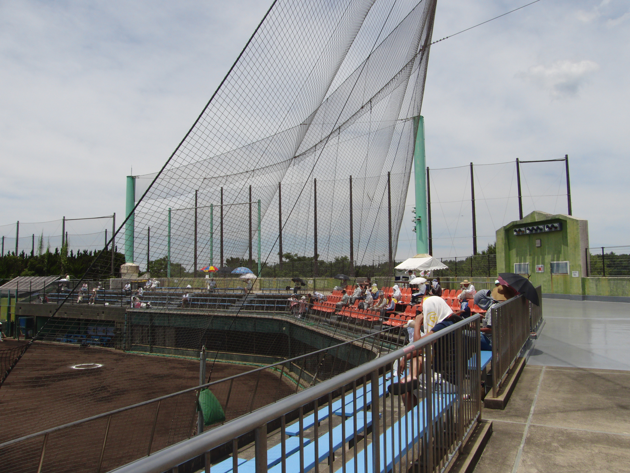 Seats behind the backstop at Gannosu Stadium